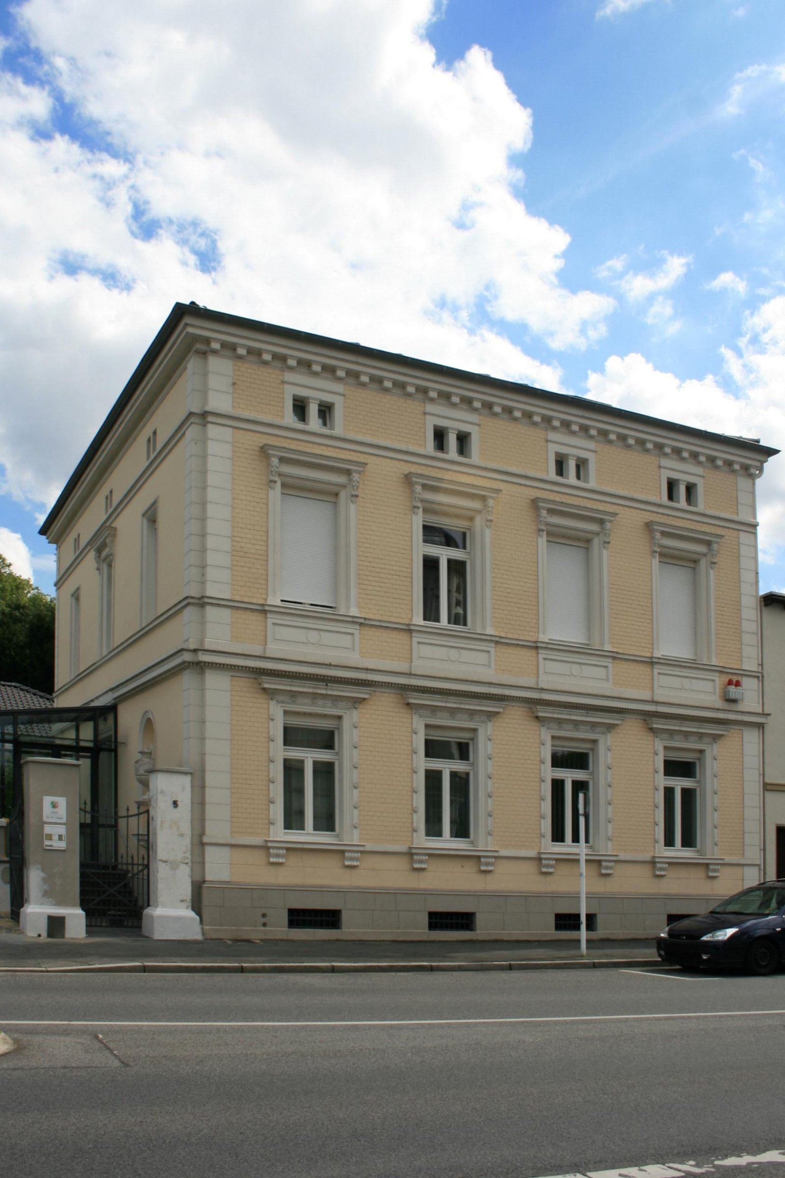 Cultural heritage monument No. M 036 in Mönchengladbach